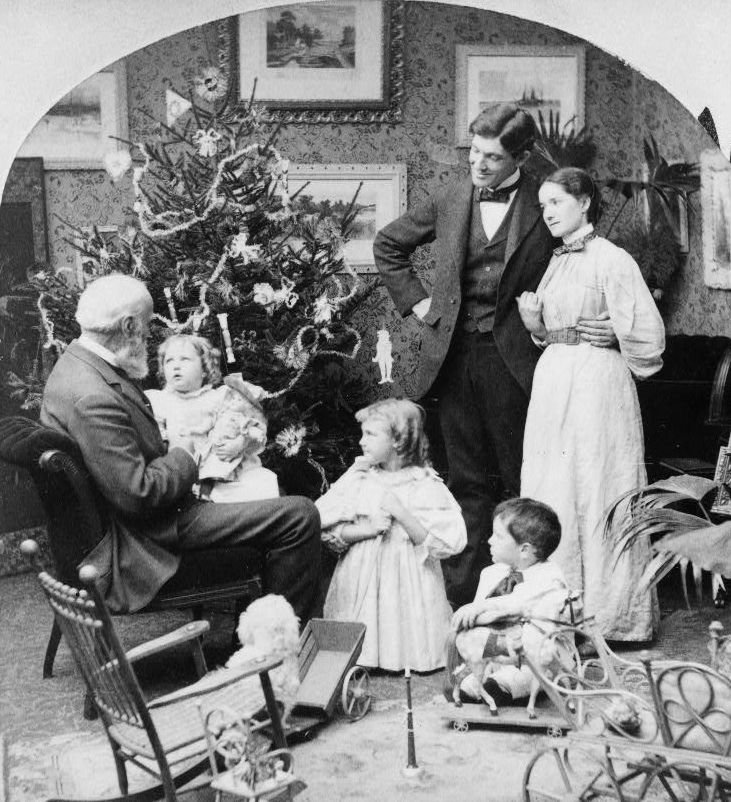 Family with toys in front of Christmas tree.